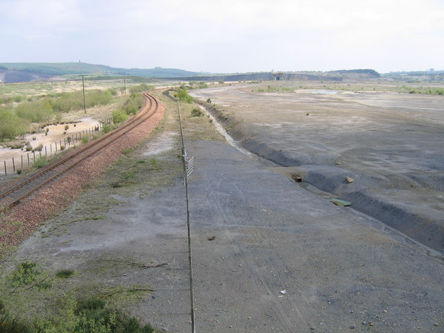 Westfield Opencast Coal Site during restoration Taken from the embankment of one of the internal haulage roads, this view shows the phased restoration of the former opencast site. Coal extraction from the land to the left of the railway line was completed several years ago; the pit has been backfilled and vegetation is now colonising the surface. To the right of the railway line, extraction ended more recently; the pit has been filled in but awaits a topsoil covering to enable plants to grow. The railway line seen here is a deviation constructed in 1992; the original line followed a route more to the right, making directly for the end of the wooded hill near the upper right corner.